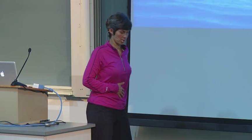 Esther Gokhale teaching at Ancestral Health Symposium 2014